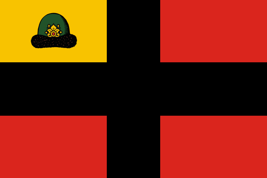 Flag of Spassk-Ryazansky, Ryazan Region, Russia